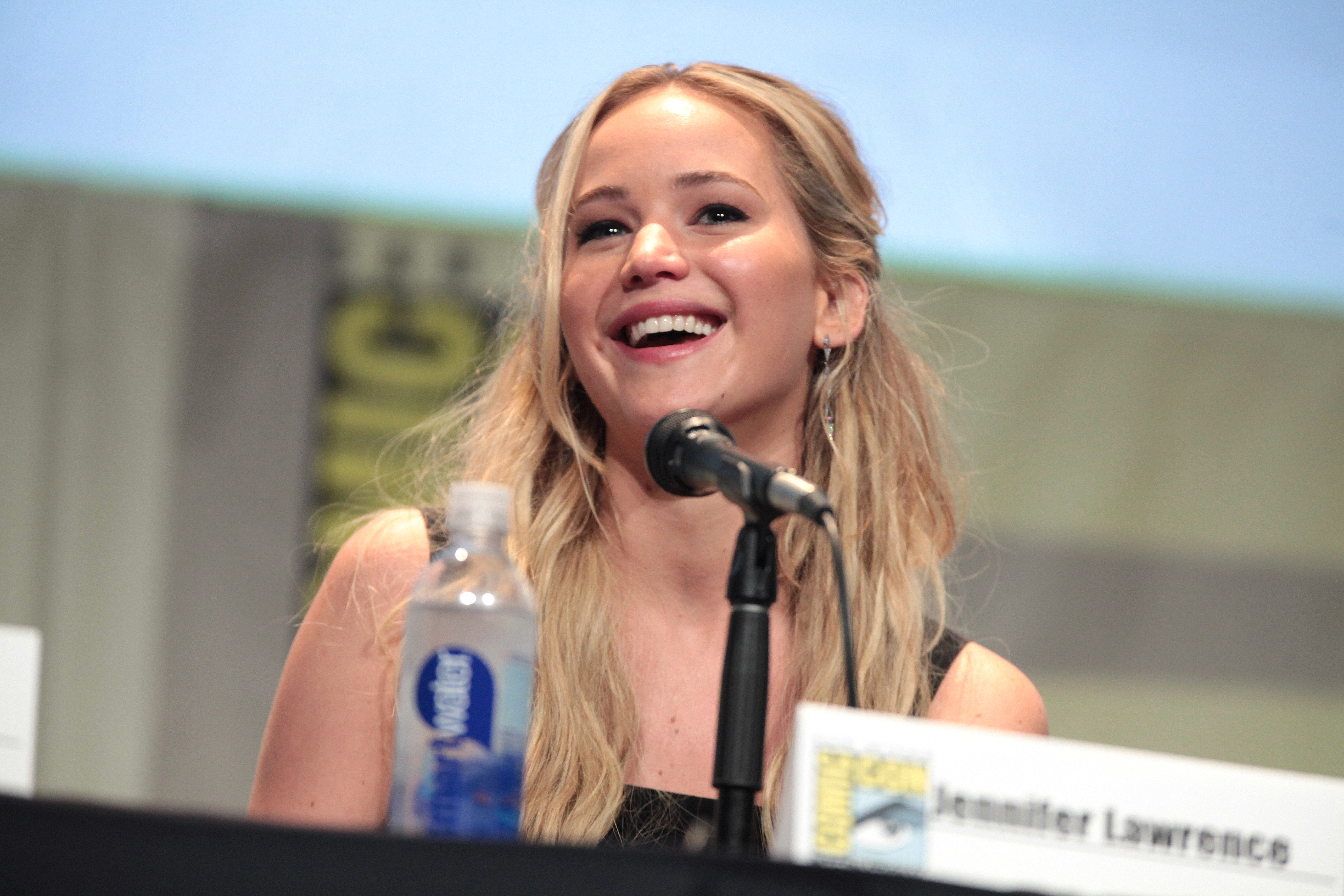 Jennifer Lawrence speaking at the 2015 San Diego Comic Con International, for "The Hunger Games: Mockingjay Part 2", at the San Diego Convention Center in San Diego, California.